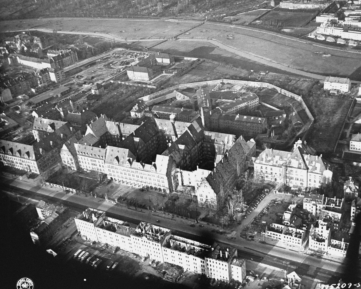 The Palace of Justice in Nurnberg, with the prison